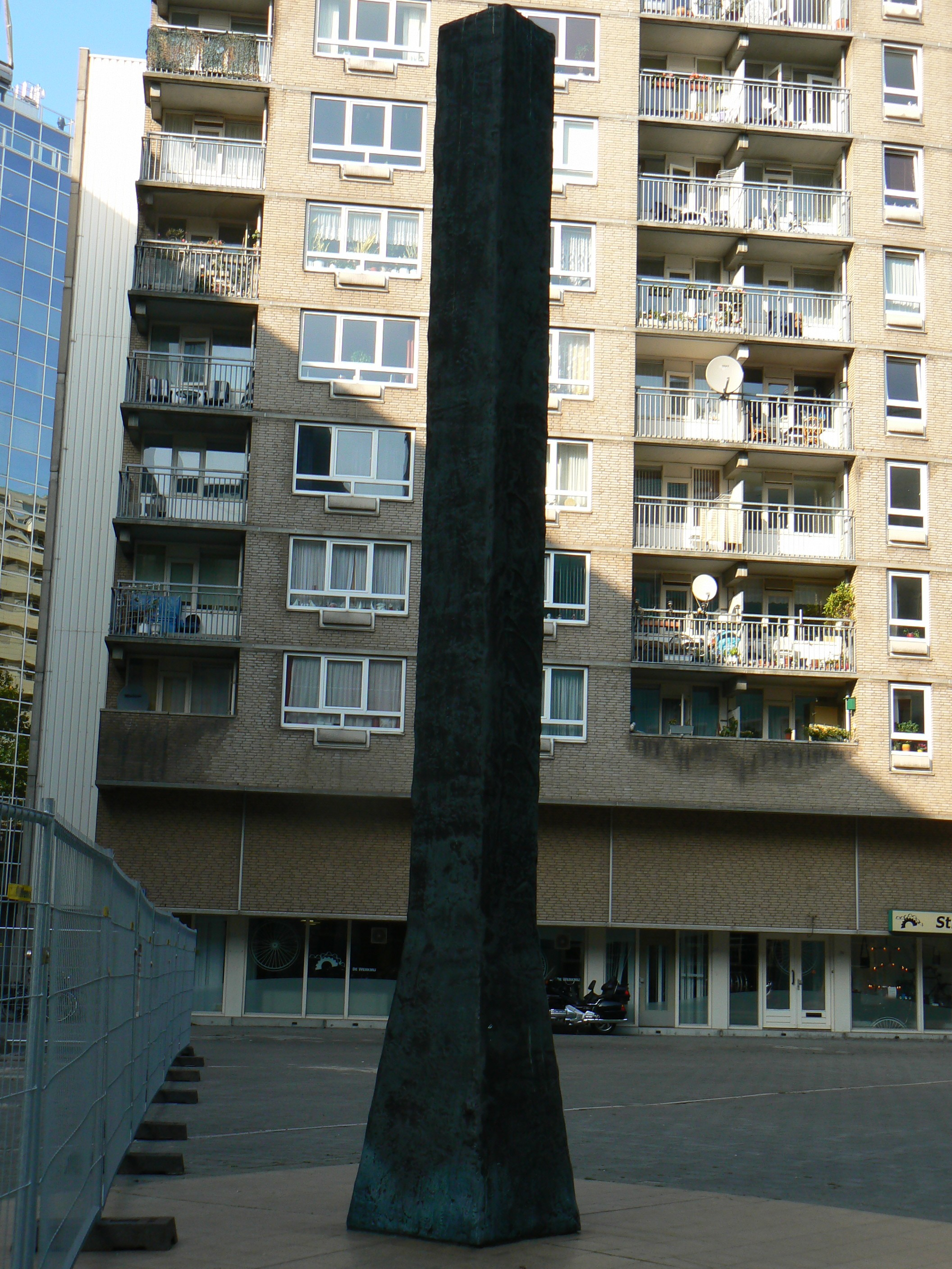 Two part sculpture Tor und Stele (1994) by Günther Forg in Rotterdam/The Netherlands